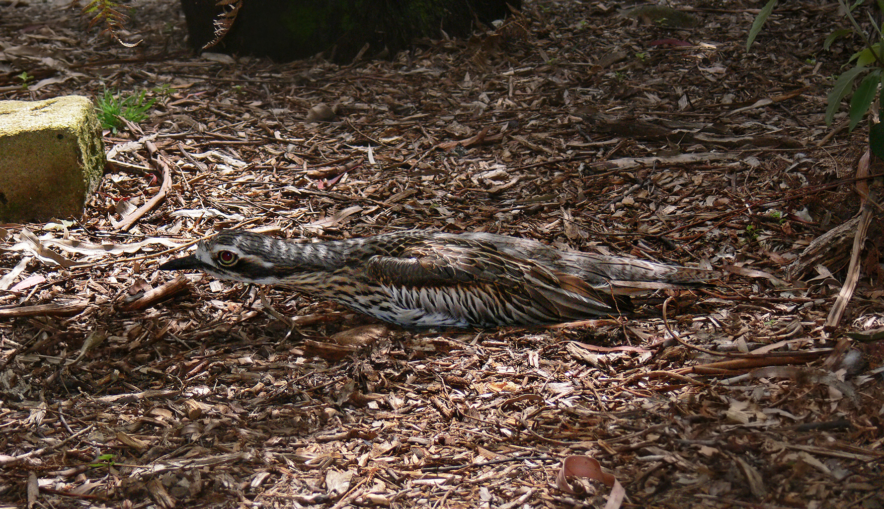 A Bush Stone Curlew, Burhinus grallarius, when disturbed, they freeze motionless, often in odd-looking postures to avoid notice by predators.